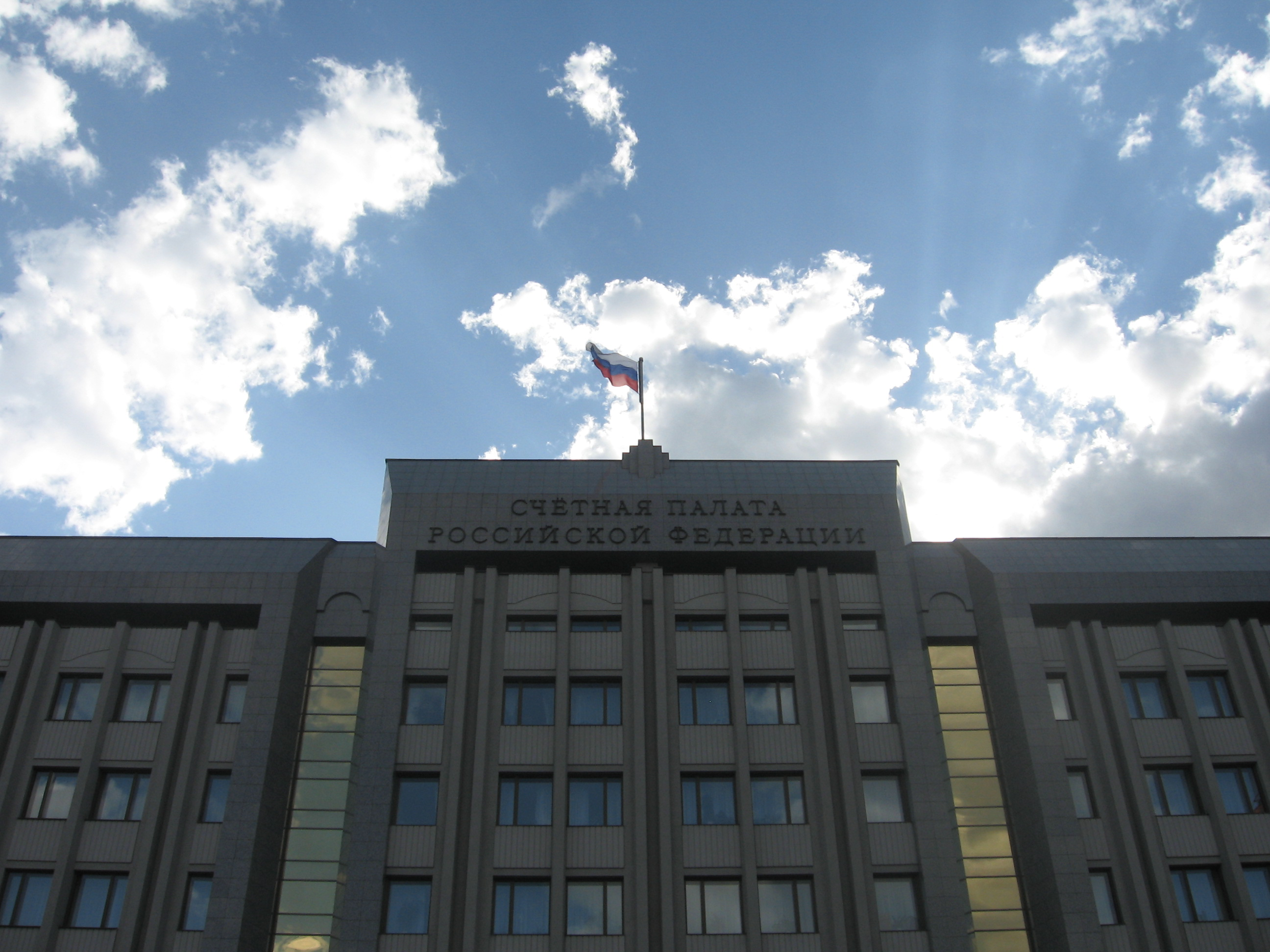 Accounts Chamber of the Russian Federation, main building (Moscow)